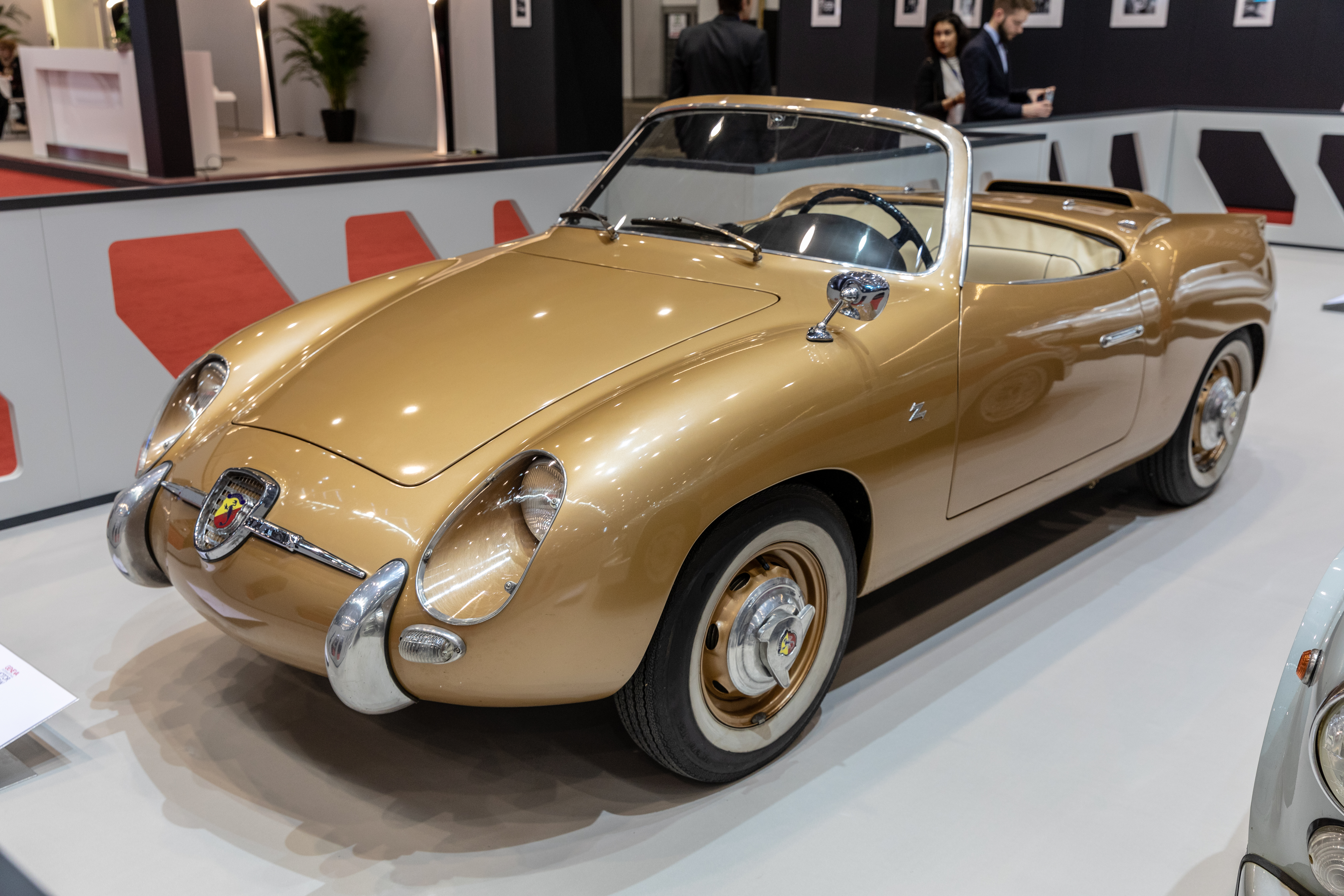 Abarth 750 Spider Zagato at Geneva International Motor Show 2019, Le Grand-Saconnex